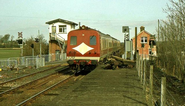 Kellswater station. Kellswater station was a remote place, along a narrow road 347235, in boggy countryside. It opened in 1876 and closed in 1971 (by which time very few trains were calling anyway). The train is the 11.15 Ballymena - Belfast Central (via Lisburn).